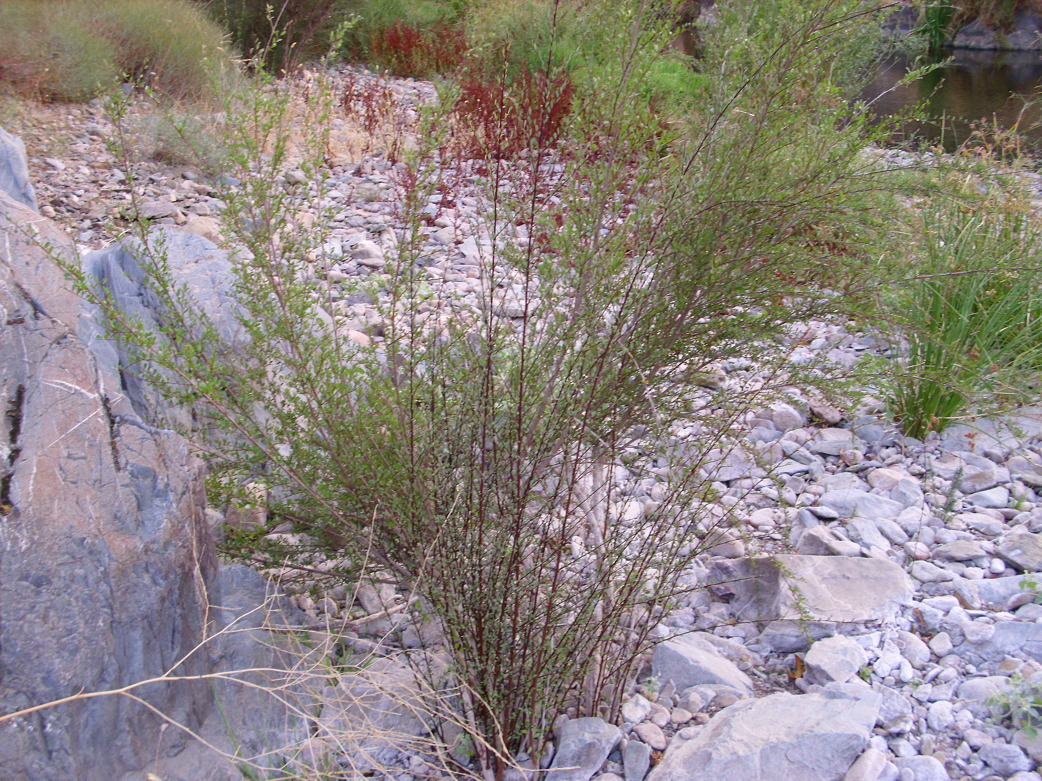 Flueggea tinctoria habitat, Río Fresnedas, Spain